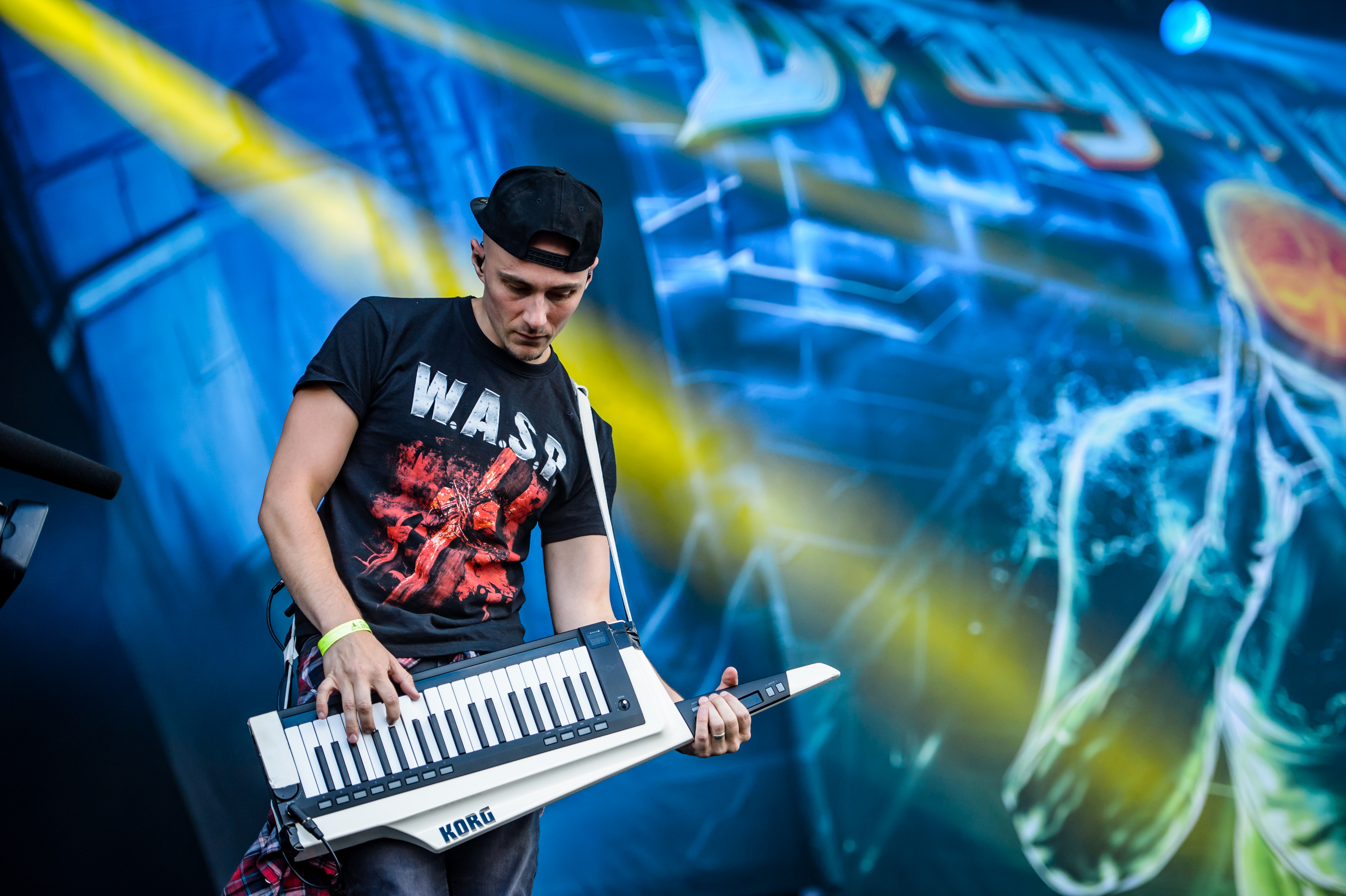 DragonForce; Wacken Open Air 2016